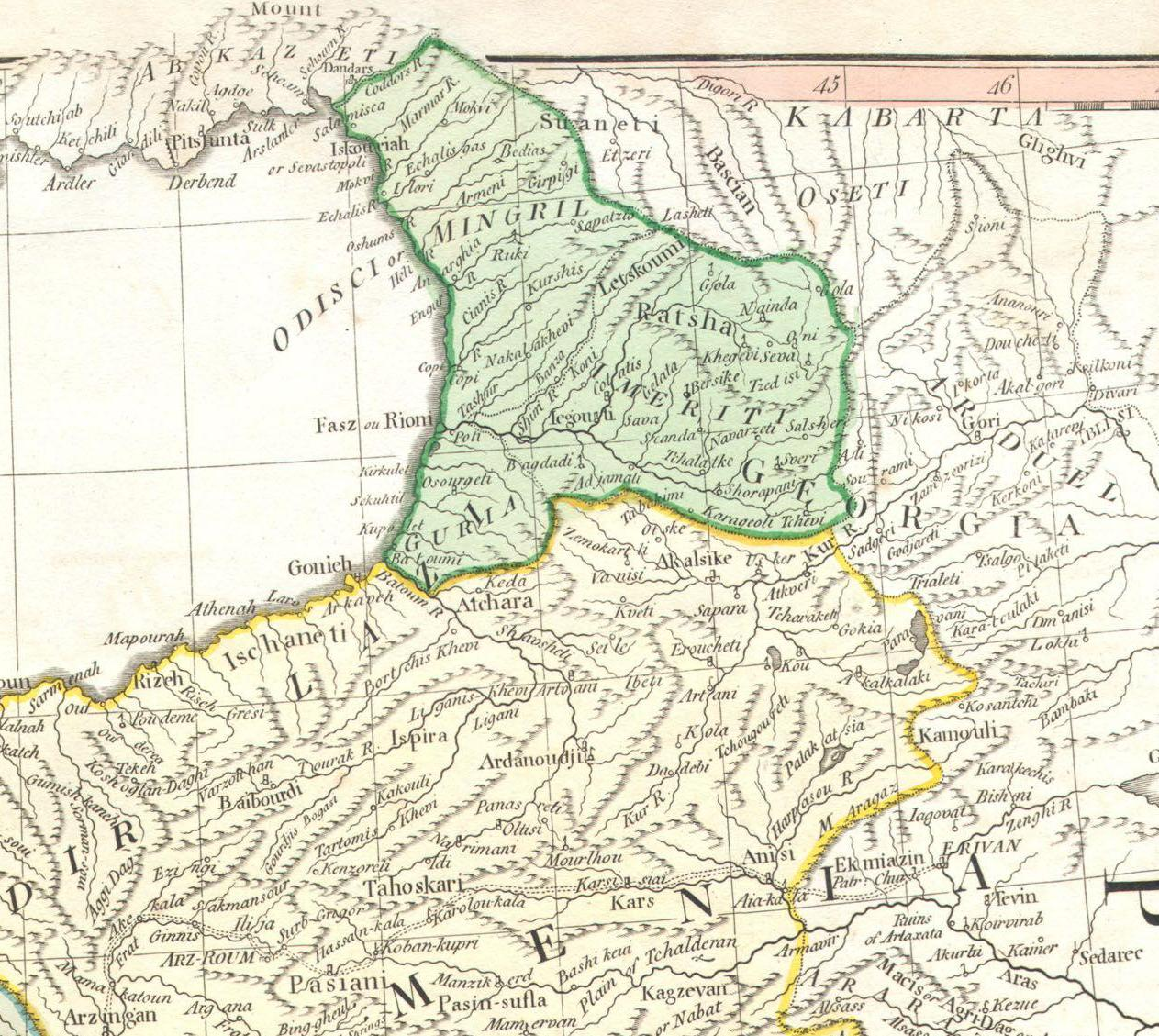 A portion of d'Anville's map of Turkey focusing on the Georgian territories.